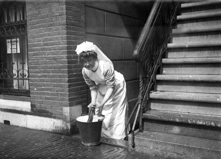 Spaarnestad Photo, SFA001011583 Dienstbode [dienstmeid, huishoudster] in Amsterdam bezig met het dweilen van de stoep. Amsterdam, 1912. Maid mopping up the pavement. Amsterdam, the Netherlands, 1912. Voor meer informatie en voor meer foto’s uit de collectie van Spaarnestad Photo, bezoek onze Beeldbank: U kunt ons helpen onze kennis van de fotocollecties te verrijken door tags en commentaren toe te voegen. Herkent u mensen of locaties of heeft u een bijzonder verhaal te vertellen bij één van de foto’s, laat dan een reactie achter (als u ingelogd bent bij Flickr) of stuur een mailtje naar